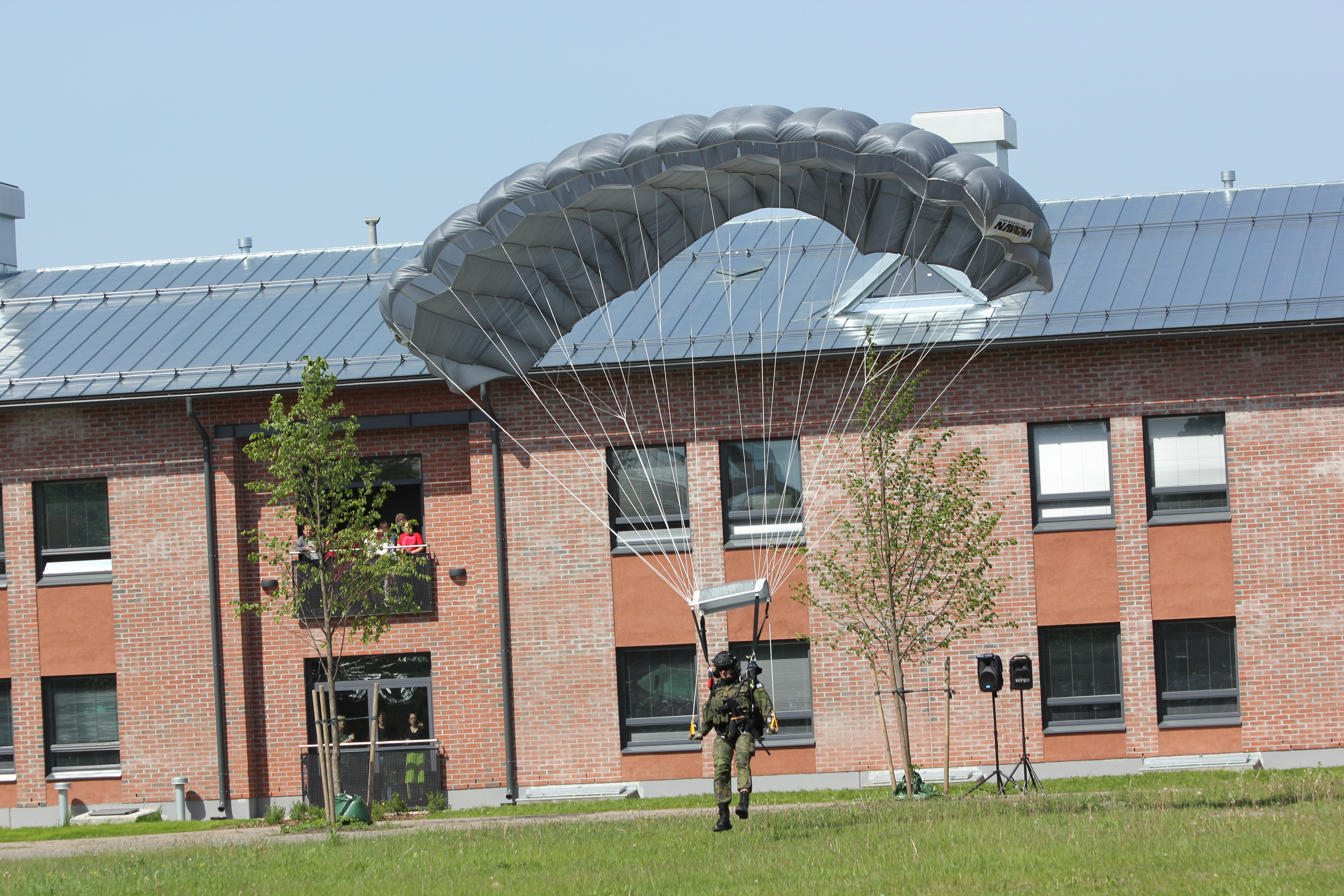 Utti Jaeger Regiment parachuting demonstration during Finnish Defence Forces 2014 Flag day in Lappeenranta Rakuunanmäki.